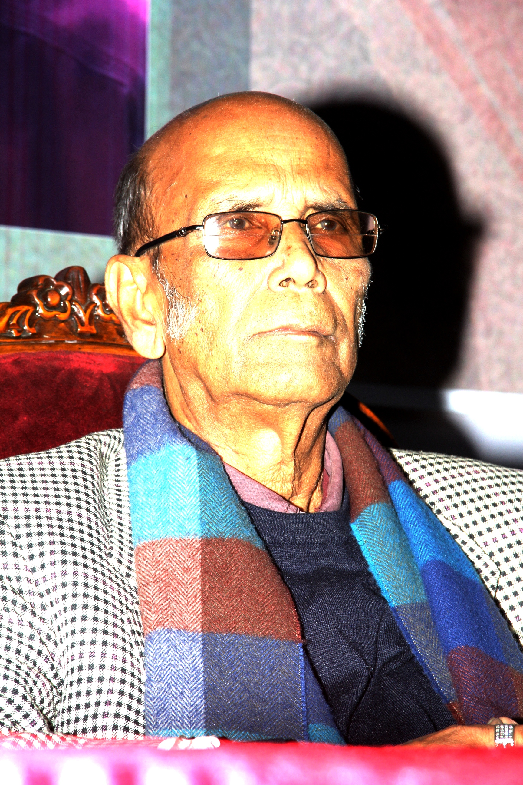 Photo of poet Syed Shamsul Haque of Bangladesh 2015